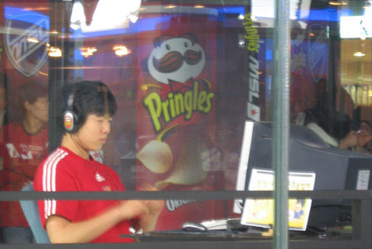 Choi yon sung in the MSL